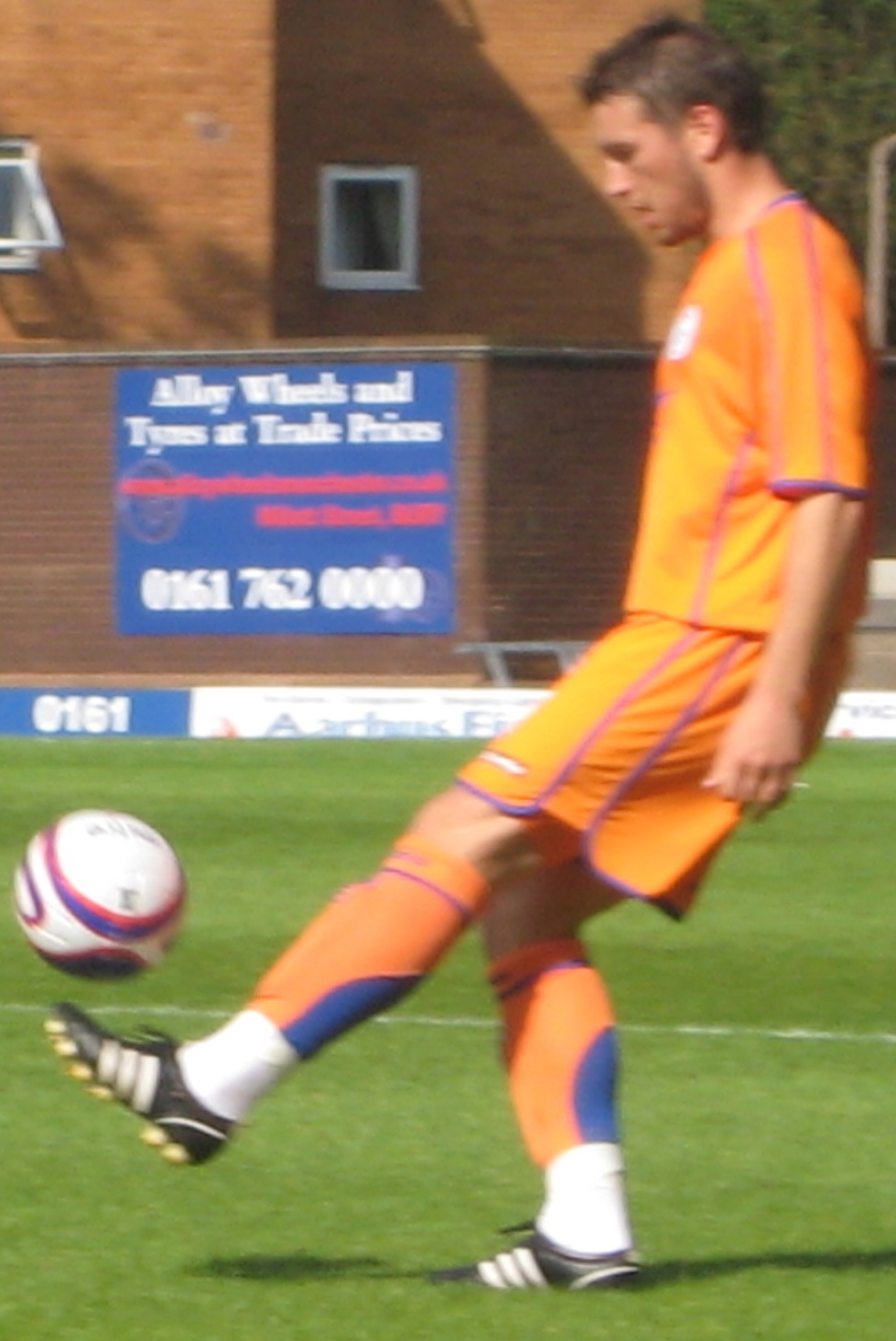 Peter Gilbert playing for Sheffield Wednesday at Gigg Lane against Bury F.C